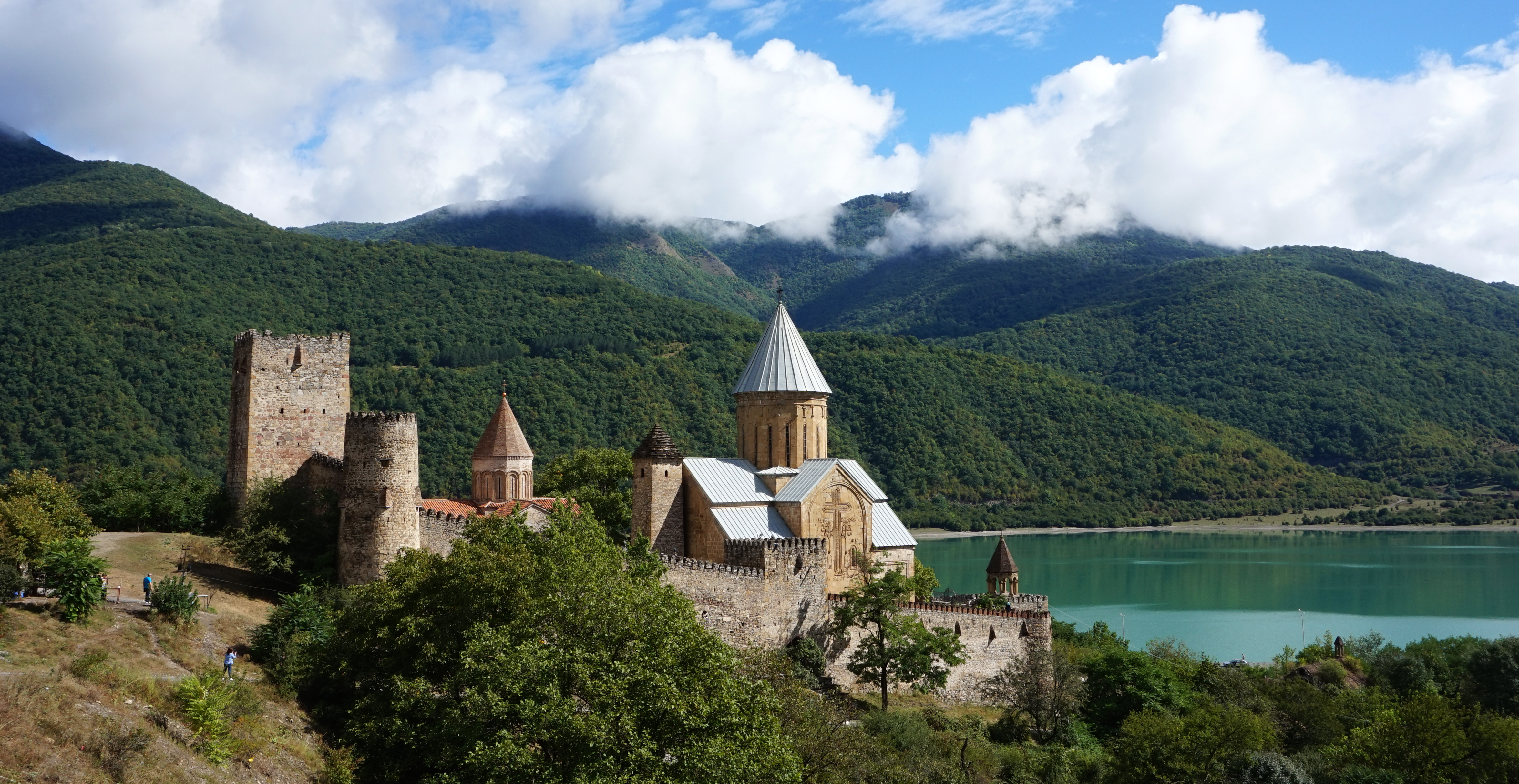 16th-17th centuries castle complex of Ananuri